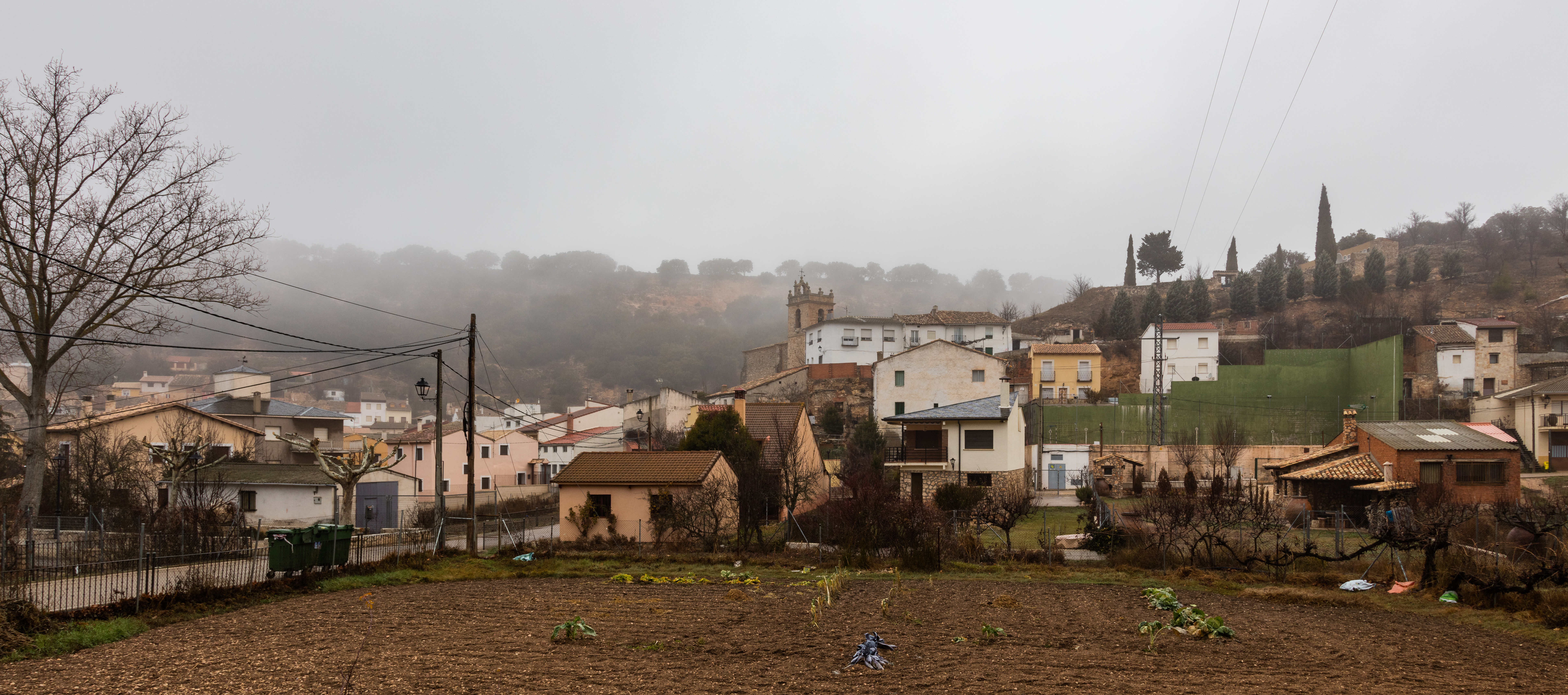 Yélamos de Arriba, Guadalajara, Spain